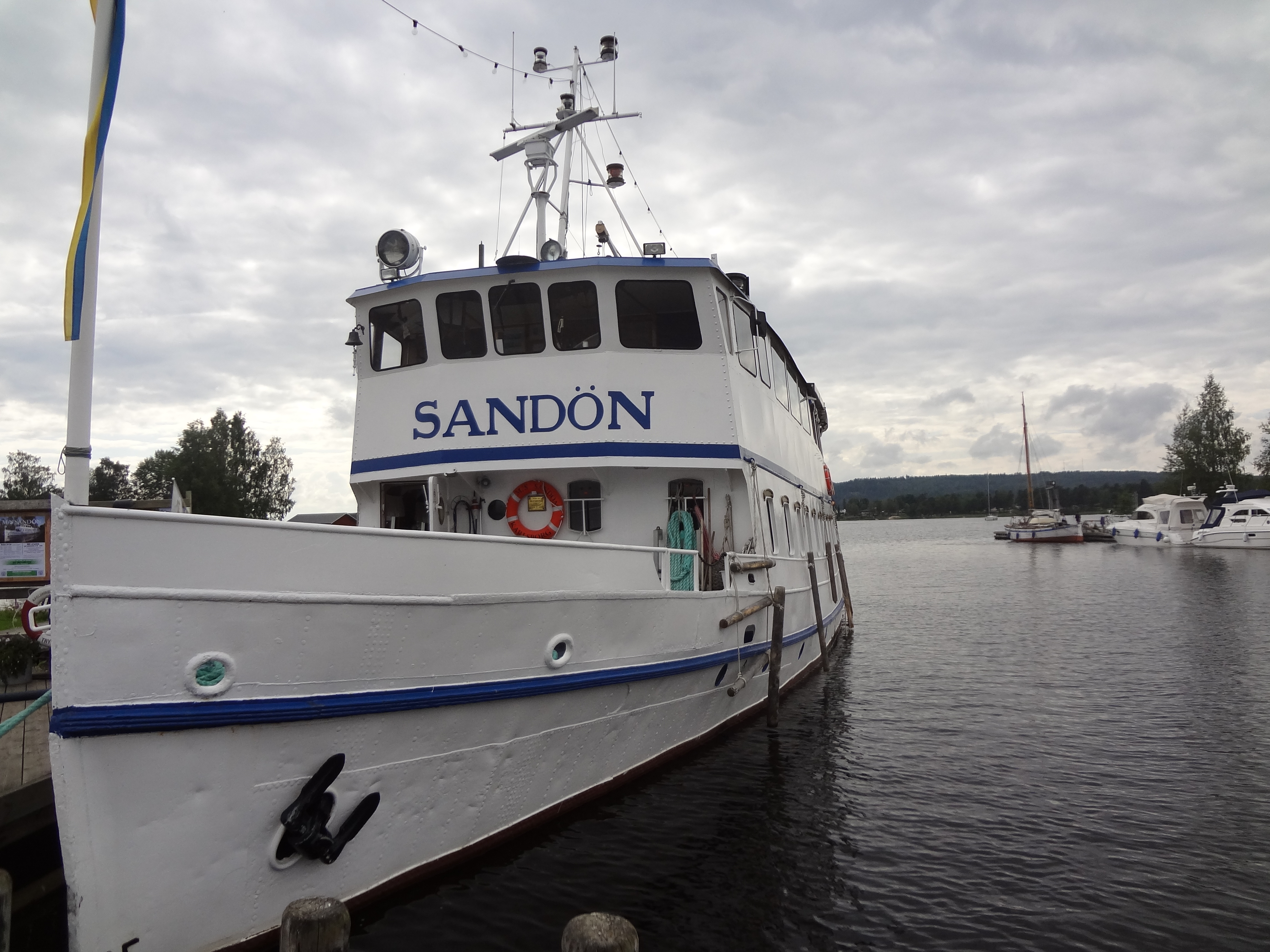 Swedish ship "Sandön"